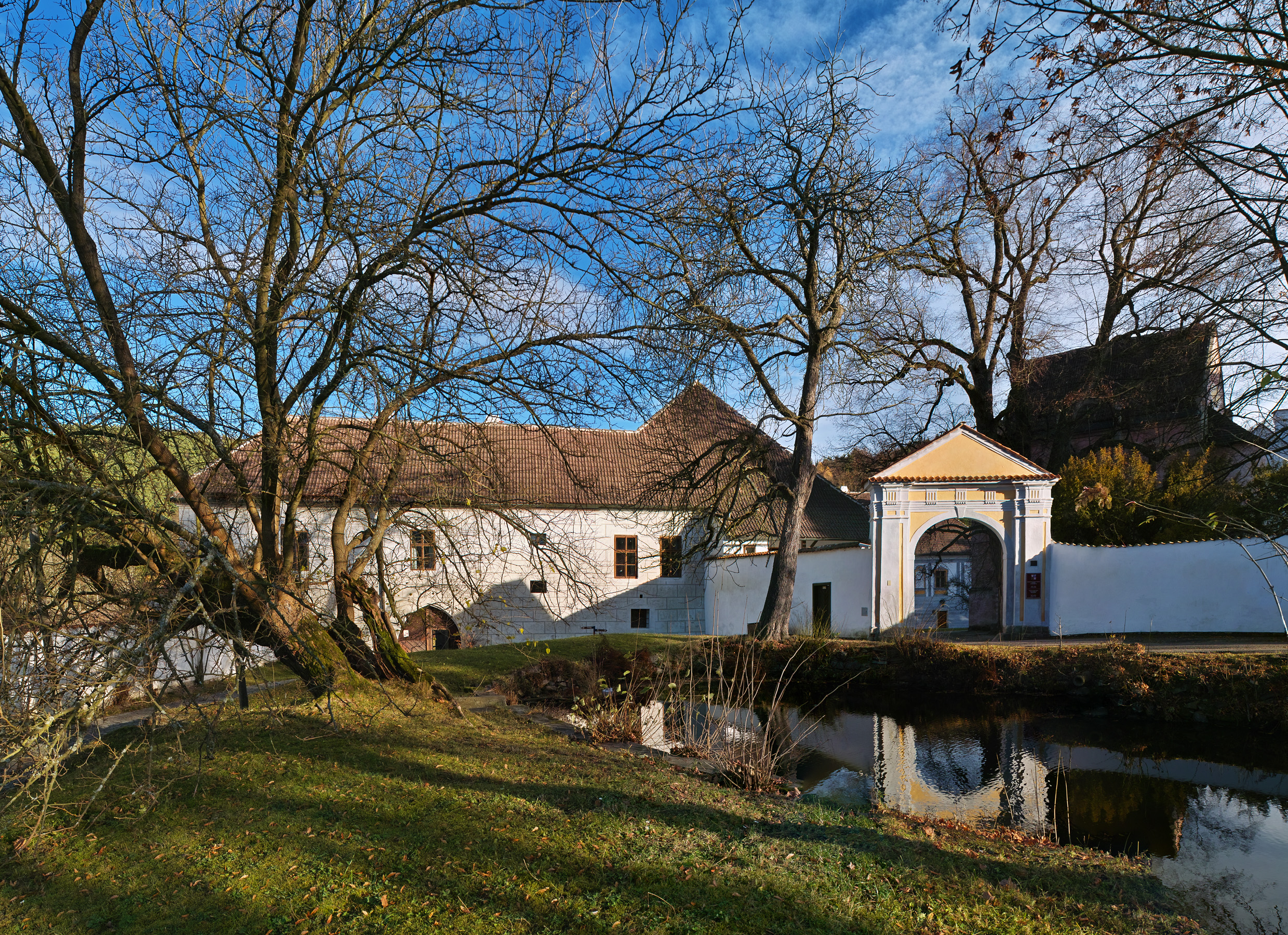 Black mulberry (Morus nigra) near monastery of Zlata Koruna (Czech), age ~230 years